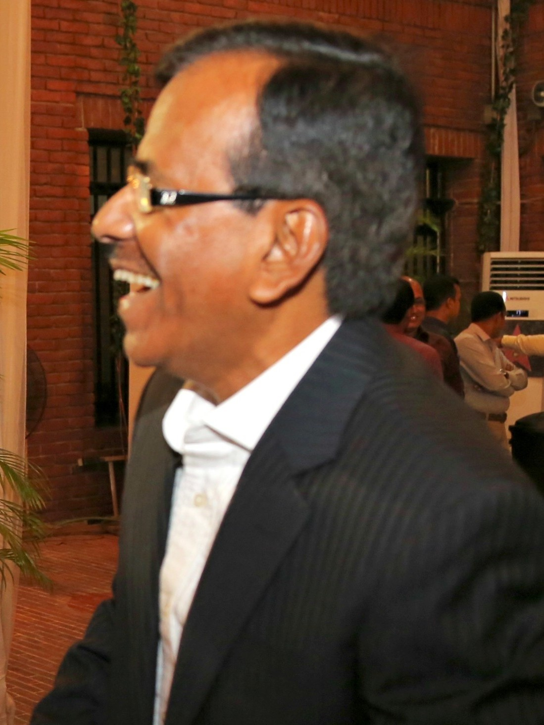 Hanif Sanket.